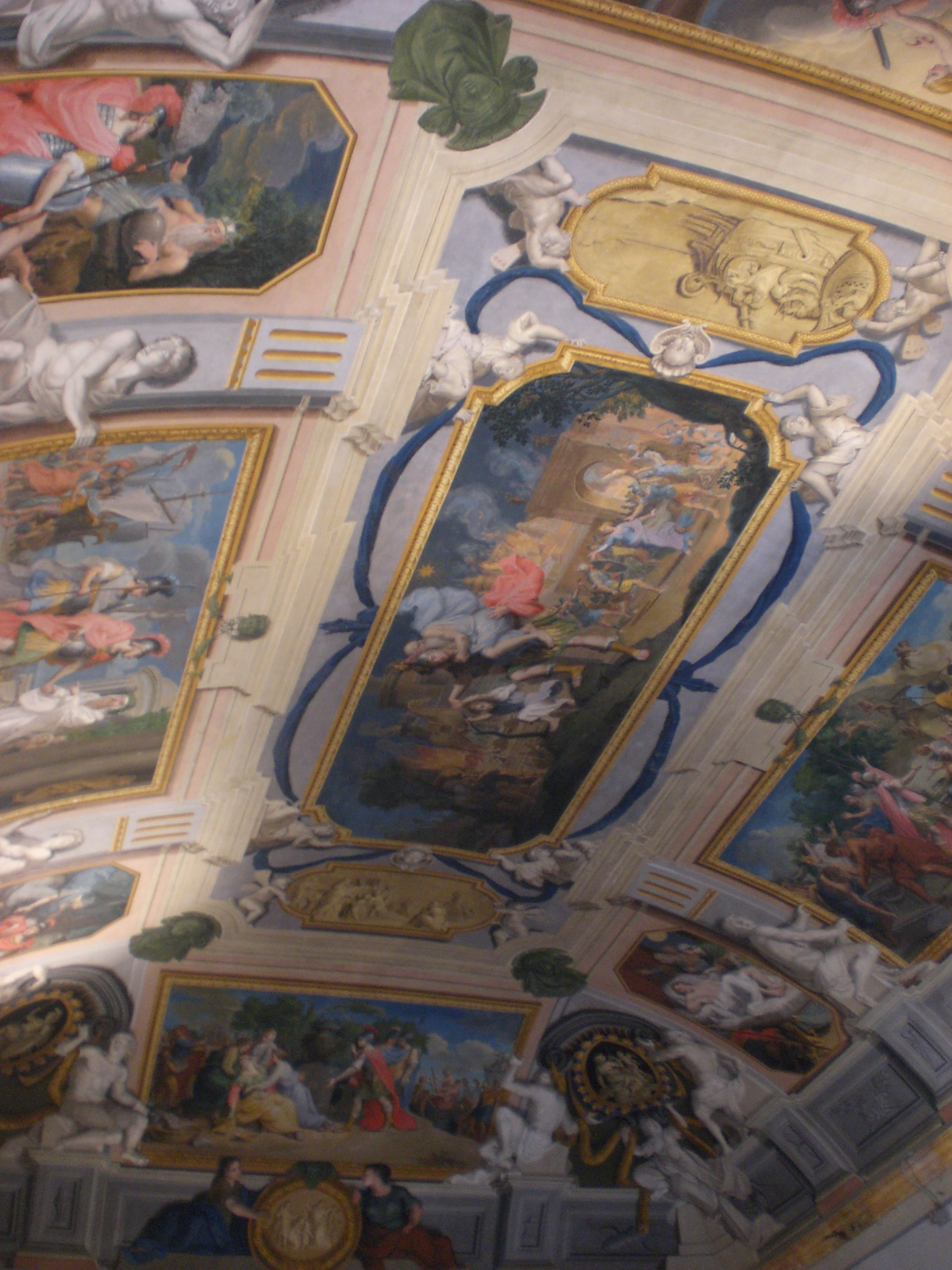 Jesi, Pianetti Palace, Enea's Rooms, XVIII Century